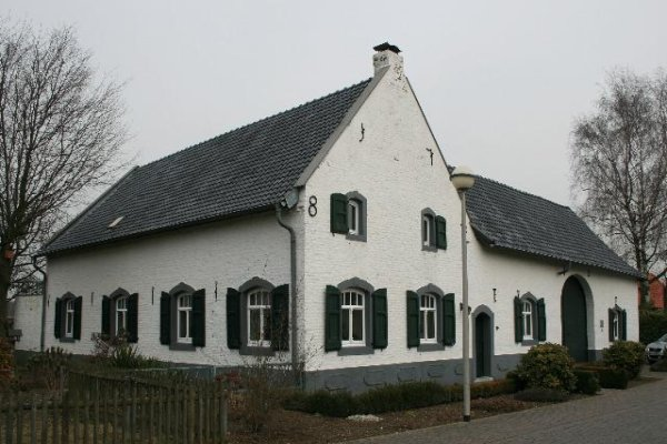 Cultural heritage monument No. 17 in Selfkant